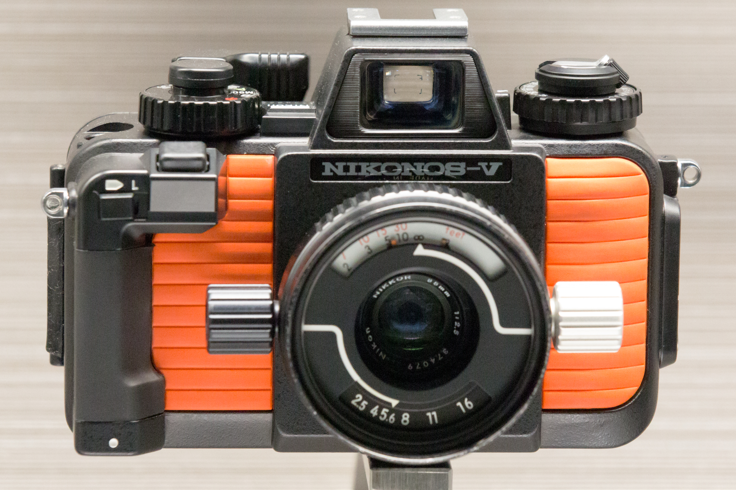 1984 Nikonos V